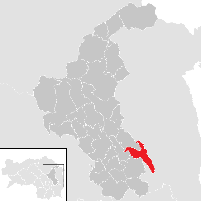 district Weiz